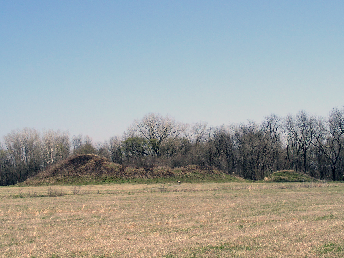 The Great Mortuary or Craig Mound( also called "The Spiro Mound") is the second-largest mound on the Spiro site and the only burial mound. It is located about 1,500 feet southeast of the plaza. A cavity created within the mound, about 10 feet high and 15 feet wide, allowed for almost perfect preservation of fragile artifacts made of wood, conch shell, and copper. The conditions in this hollow space were so favorable that objects made of perishable materials such as basketry, woven fabric, lace, fur, and feathers were preserved inside it. Such objects have traditionally been created by women in historic tribes. Also found inside were several examples of Mississippian stone statuary made from Missouri flint clay and Mill Creek chert bifaces, all thought to have originally come from the Cahokia site in Illinois.